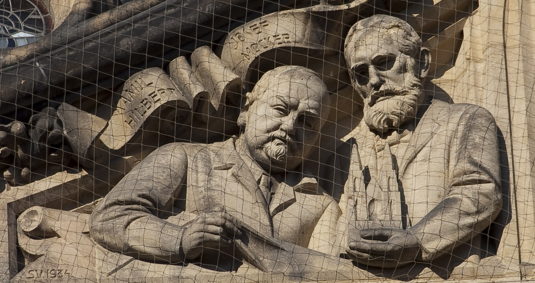 The depiction of architects Kamil Hilbert and Josef Mocker on the facade of St. Vitus Cathedral in Prague